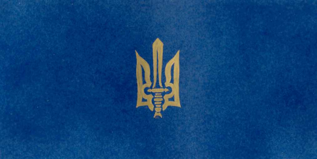 Flag of the Organization of Ukrainian Nationalists (OUN)